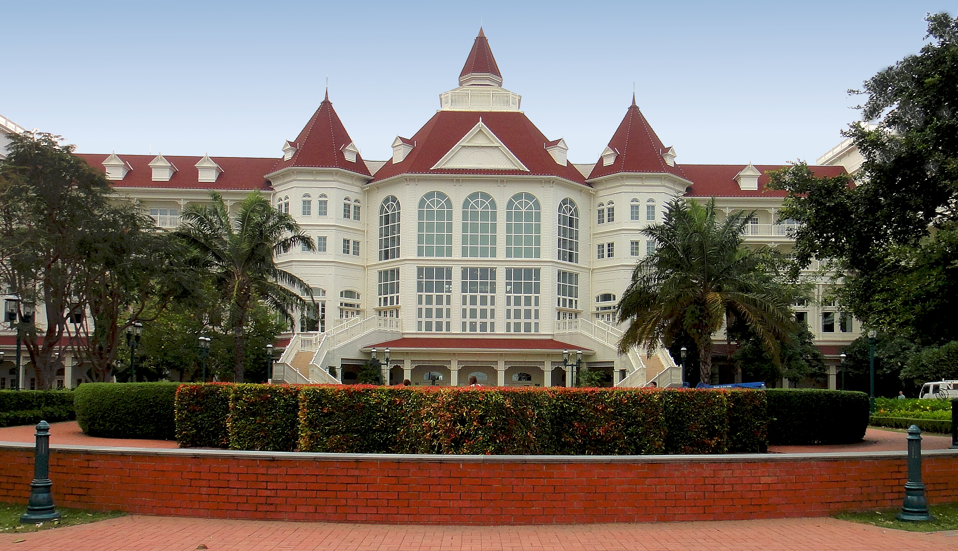 Front view of Disneyland hotel, Hong Kong